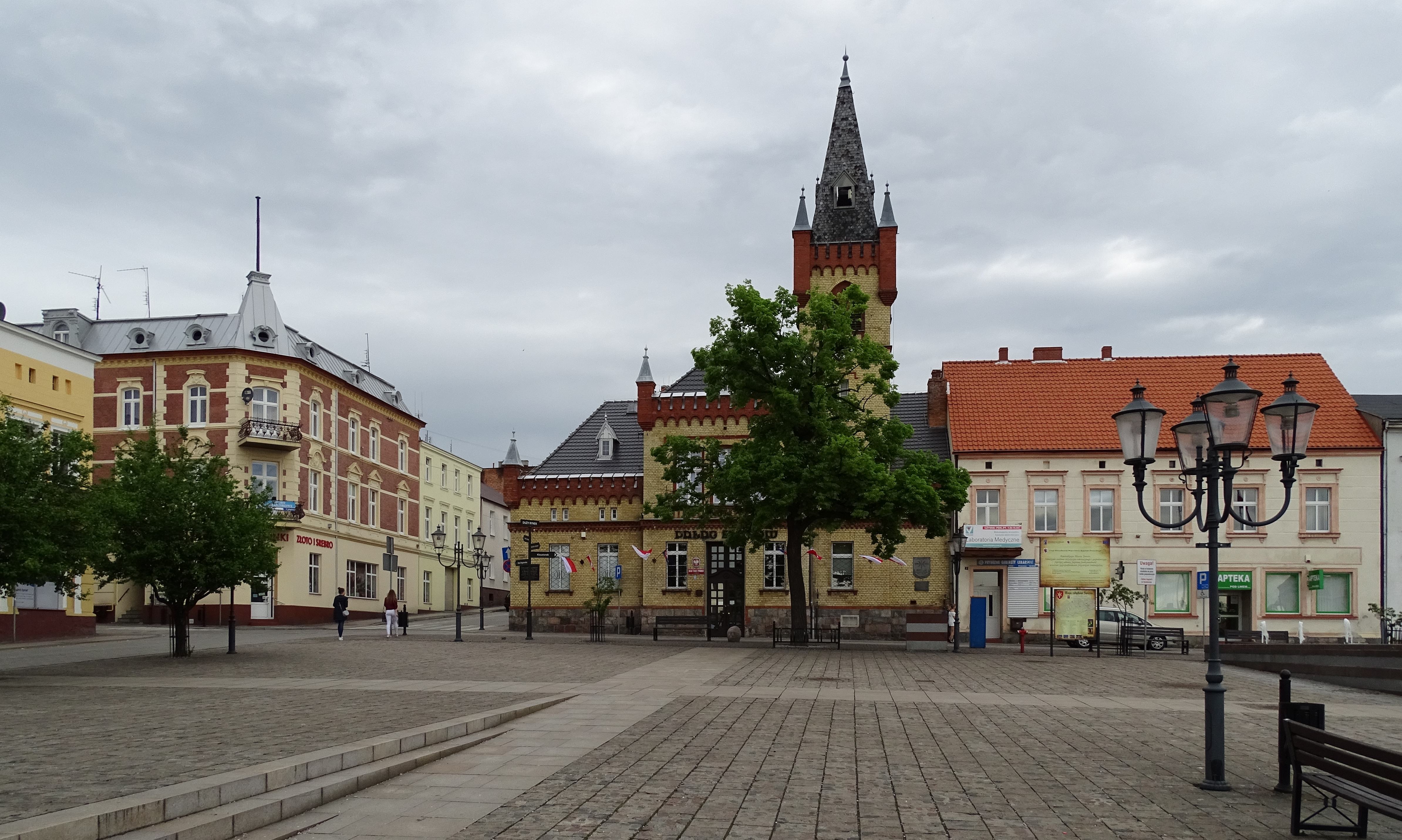 Market Square in Świecie, Pomerania. The house covered by the tree is the Town Hall from 1879.